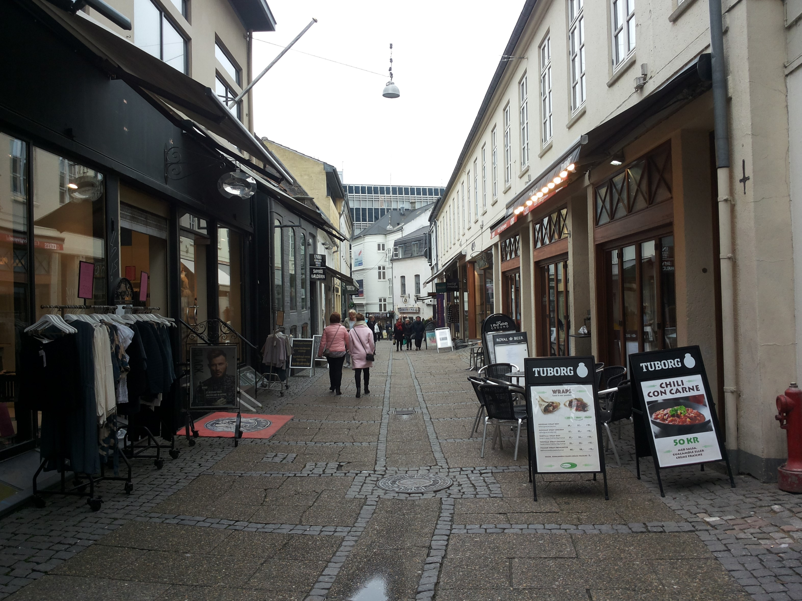 Sankt Clemens Stræde